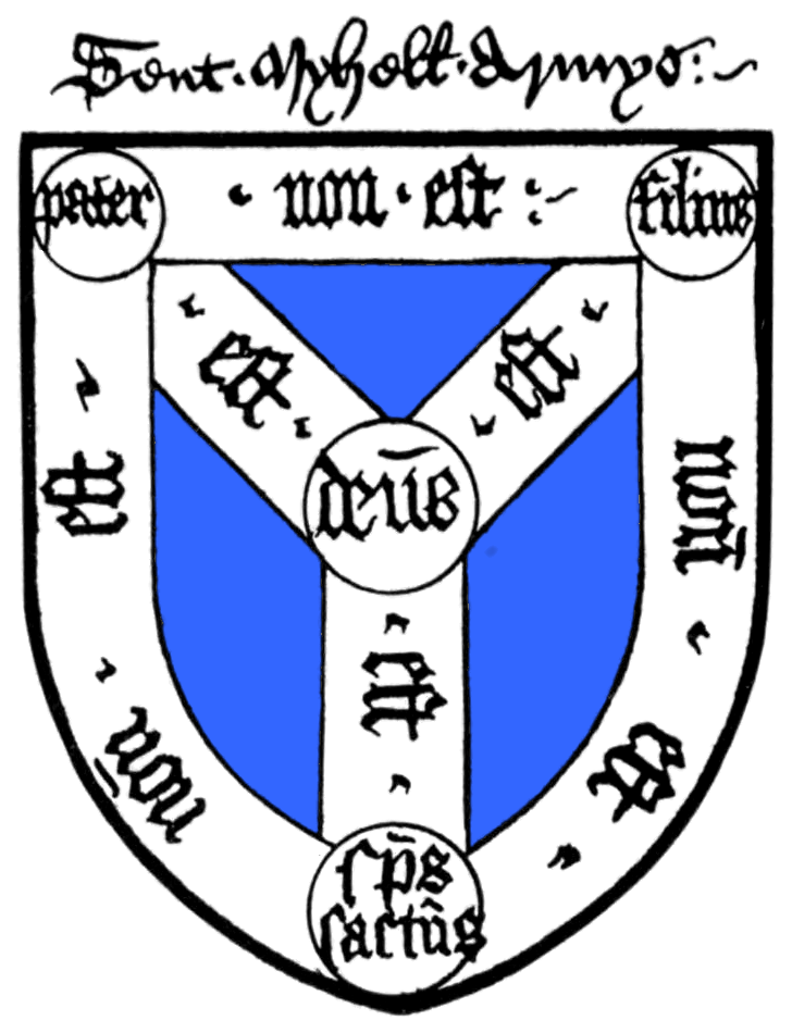 Reproduction of heraldic arms attributed to St. Michael (the archangel) in a ca. mid-15th century manuscript of "Aunciant Coates", ms. Harley 2169 from the Harleian collection of the British Library (sometimes also known as "Randle Holme's Book"). The caption at top reads: "Sent Myhell Armys" (i.e. St. Michael's Arms). For the other text in the shield, see article Shield of the Trinity. In the original illustration, the colors were heraldically "tricked" (i.e. white and blue colors were indicated by text labels argent and aswre). In this version of the image the text labels were removed and colors were applied (for an uncolorized version, see Image:Harleian_Ms2169_St_Mihell_arms_tricked_original.gif ). This is blazoned as "Azure, with the device of the Trinity in silver" in article "A Fifteenth Century Book of Arms (Illustrated)", in the journal The Ancestor, issue 3 (October 1902), p. 206. Also, it is blazoned as "Azure, the device of the Trinity argent, inscribed sable" in Two Tudor Books of Arms: Harleian Mss. Nos. 2169 & 6163, with Nine Hundred Illustrations. / A Tudor Book Of Arms: Tricked by Robert Cooke, being Harleian Manuscript No. 2169, Blasoned by Joseph Foster, Hon. M.A. Oxon. See also the discussion on page 95 of The Heraldic Imagination by Rodney Dennys (1975). In the book in Heraldry: Sources, Symbols, and Meaning by Ottfried Neubecker (1976), this coat of arms is incorrectly attributed to a Bishop of York. The Shield of the Trinity diagram on a red shield (rather than blue) was considered to be the coat of arms of God (or of the Trinity) in 15th-century England and France.